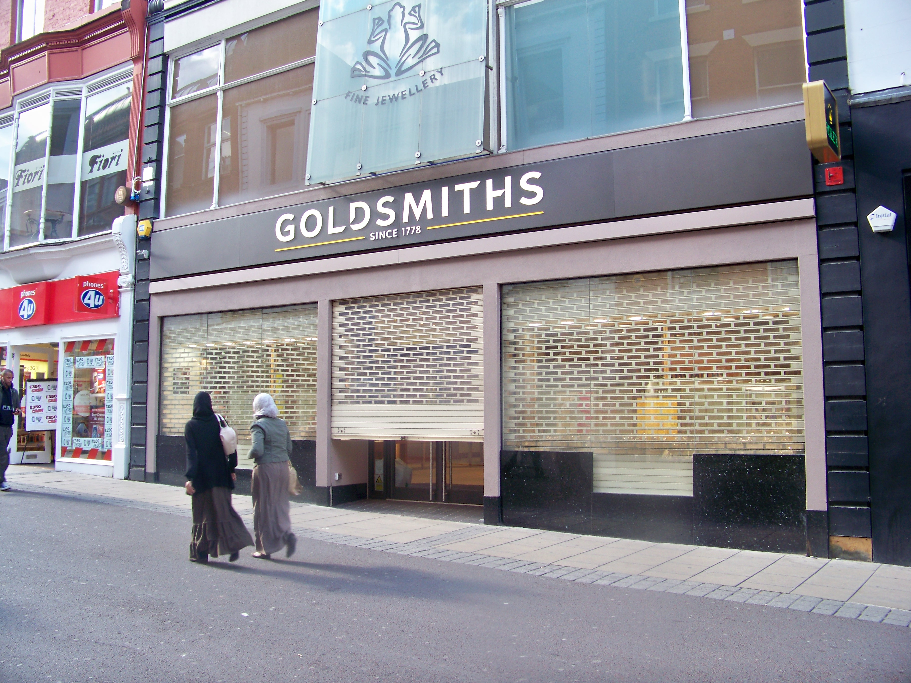 Goldsmiths jewellers on Commercial Street in Leeds, West Yorkshire. Taken on the evening of Thursday the 27th of May 2010.